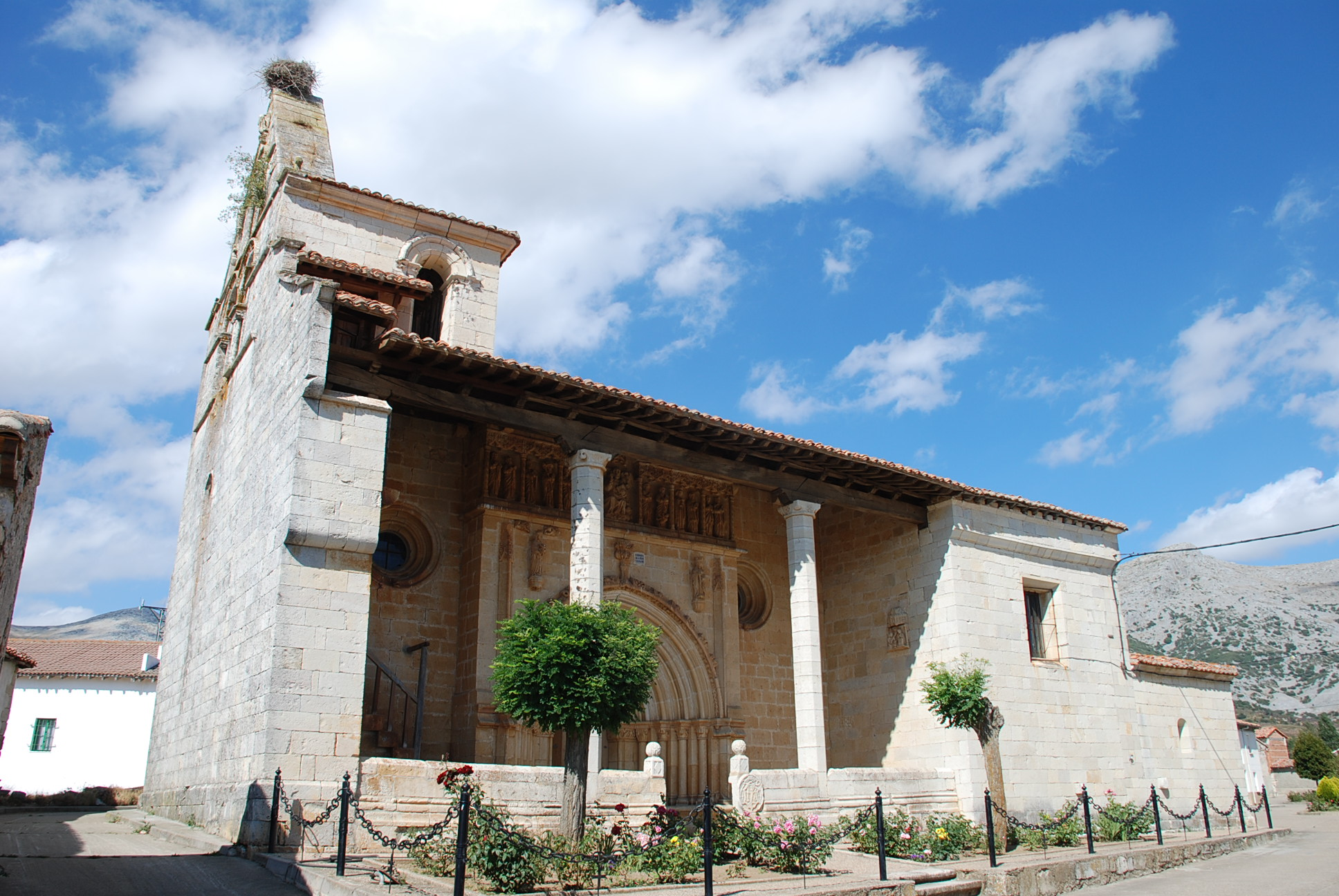 Church of La Transfiguración in Traspeña de la Peña (Palencia, Castile and León).